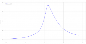 srm-engine-suite-screen-shot